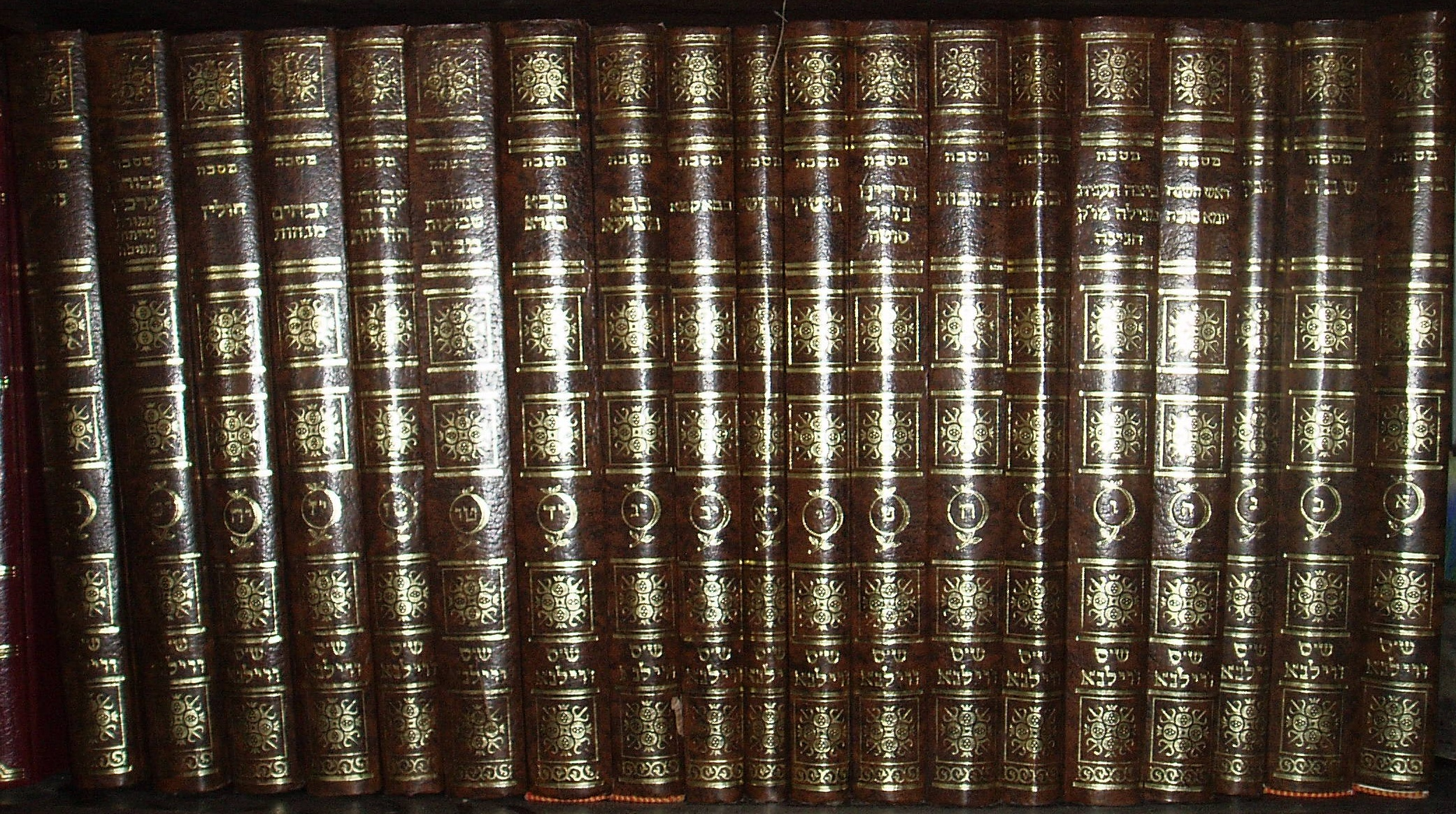 A set of the Talmud, of the kind sometimes known as a חתן ש"ס (chasan shas) amongst Ashkenazim. Literally, this means "bridegroom shas", since it's of the expensive kind often given as a wedding present. (Shas stands for shisha sedarim, a synonym for Talmud literally meaning "six orders". That, in turn, is a reference to the six groups that the volumes of the Talmud are traditionally organized in.) Unfortunately, I'm not a good photographer, nor a good Photoshopper, but this is better than nothing. (Comment: This picture is missing the volume for Tractate Pesachim.)